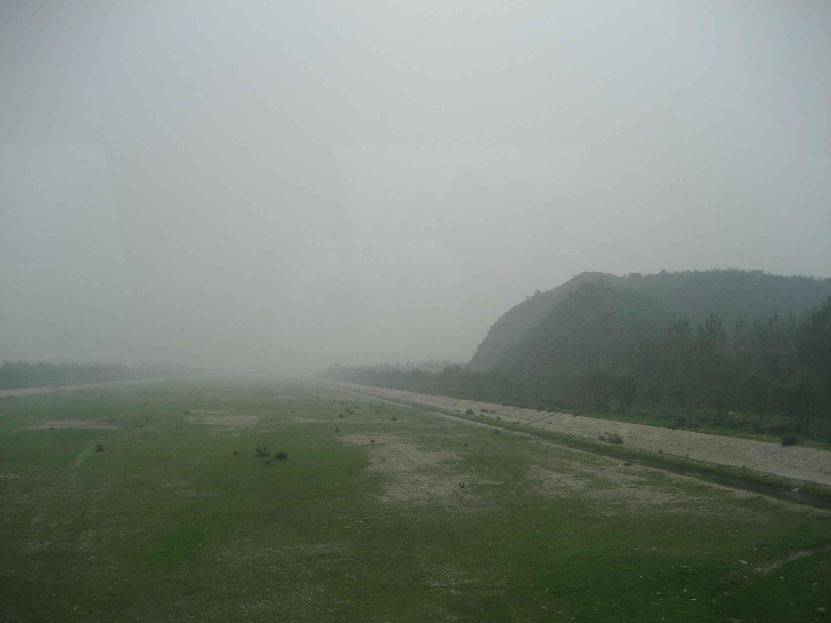 Image of dry river from a bridge near Beijing, China